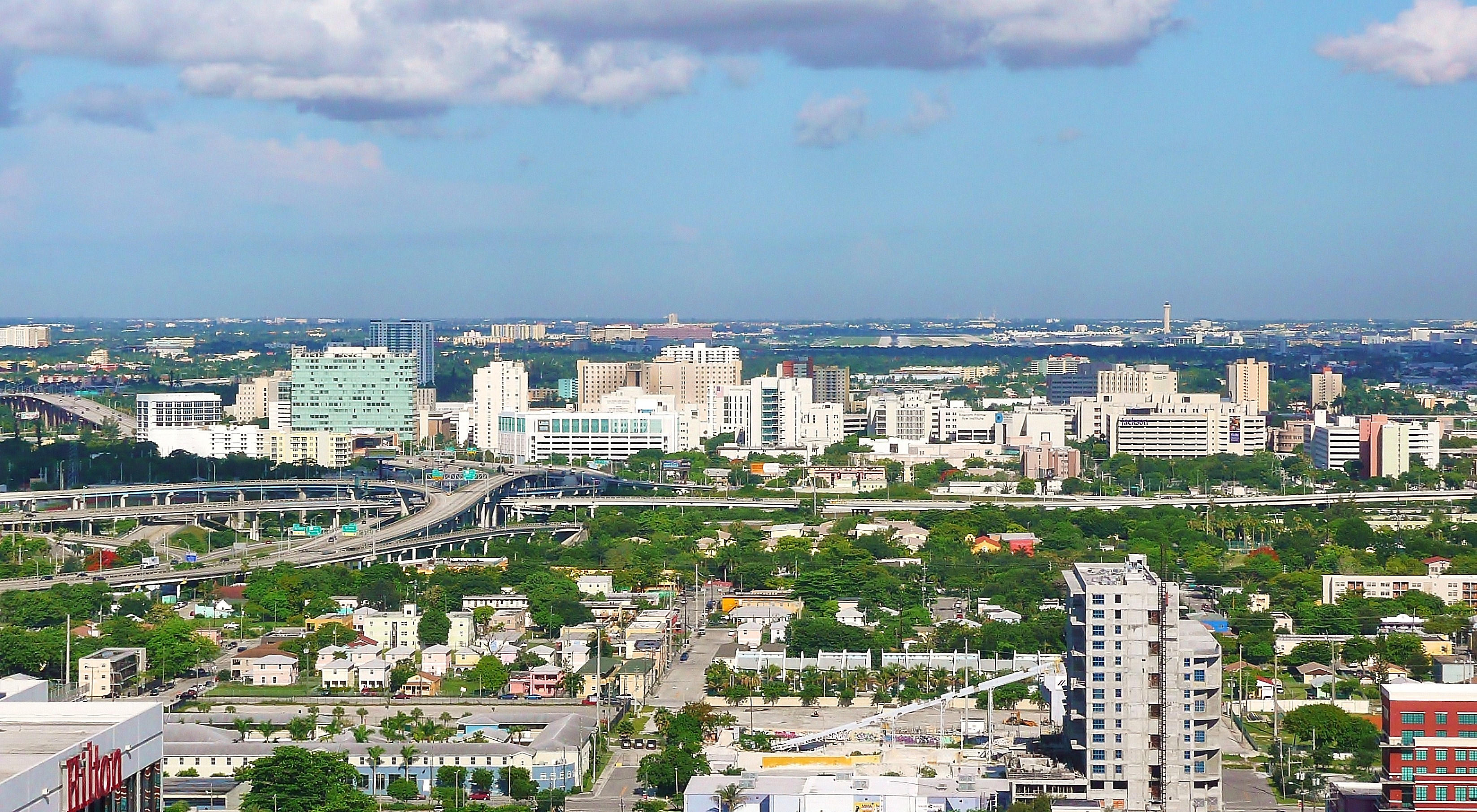 Digital photo taken by Marc Averette. Civic Center in Miami, Florida, United States.